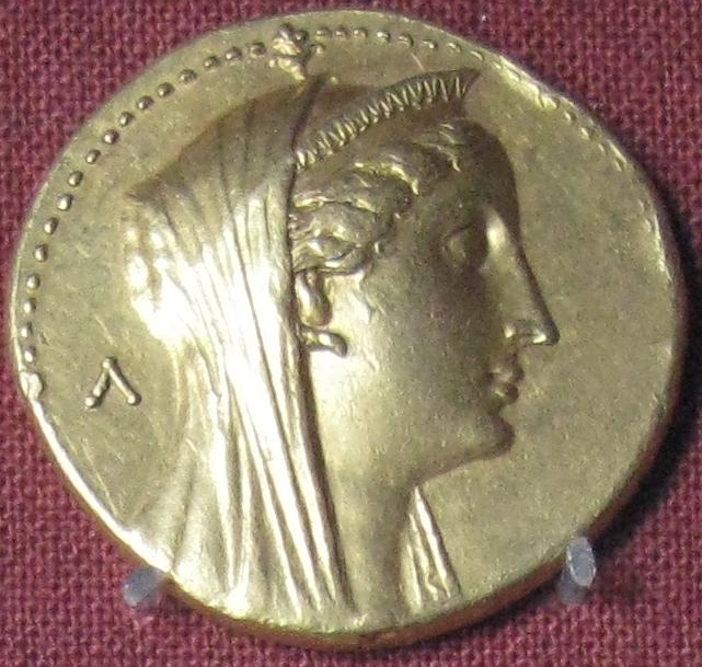 Obverse of coin of Arsinoe_II: portrait gold